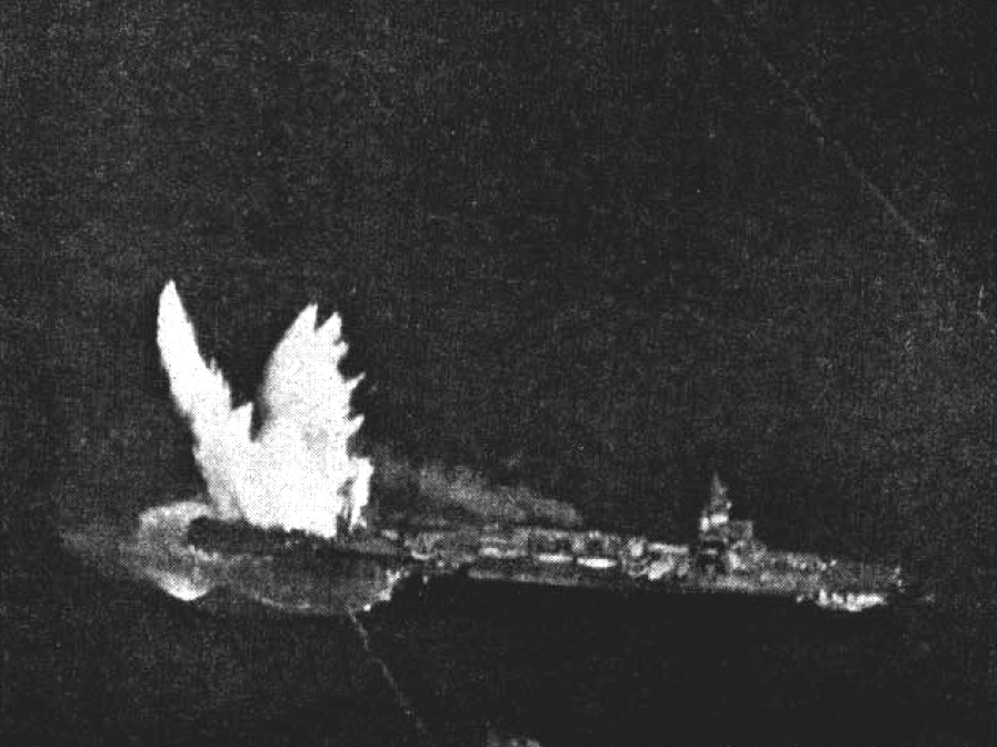 A Japanese light cruiser is hit during an attack by U.S. Navy aircraft, with torpedo tracks visible. The description states that this cruiser was attacked at Kwajalein. The cruiser Isuzu was severely damaged in a raid off Roi, Kwajalein Atoll, on 5 December 1944 by planes form the aircraft carriers USS Yorktown (CV-10) and USS Lexington (CV-16). However, Isuzu was not torpedoed but bombed aft twice and damaged by a near-miss.